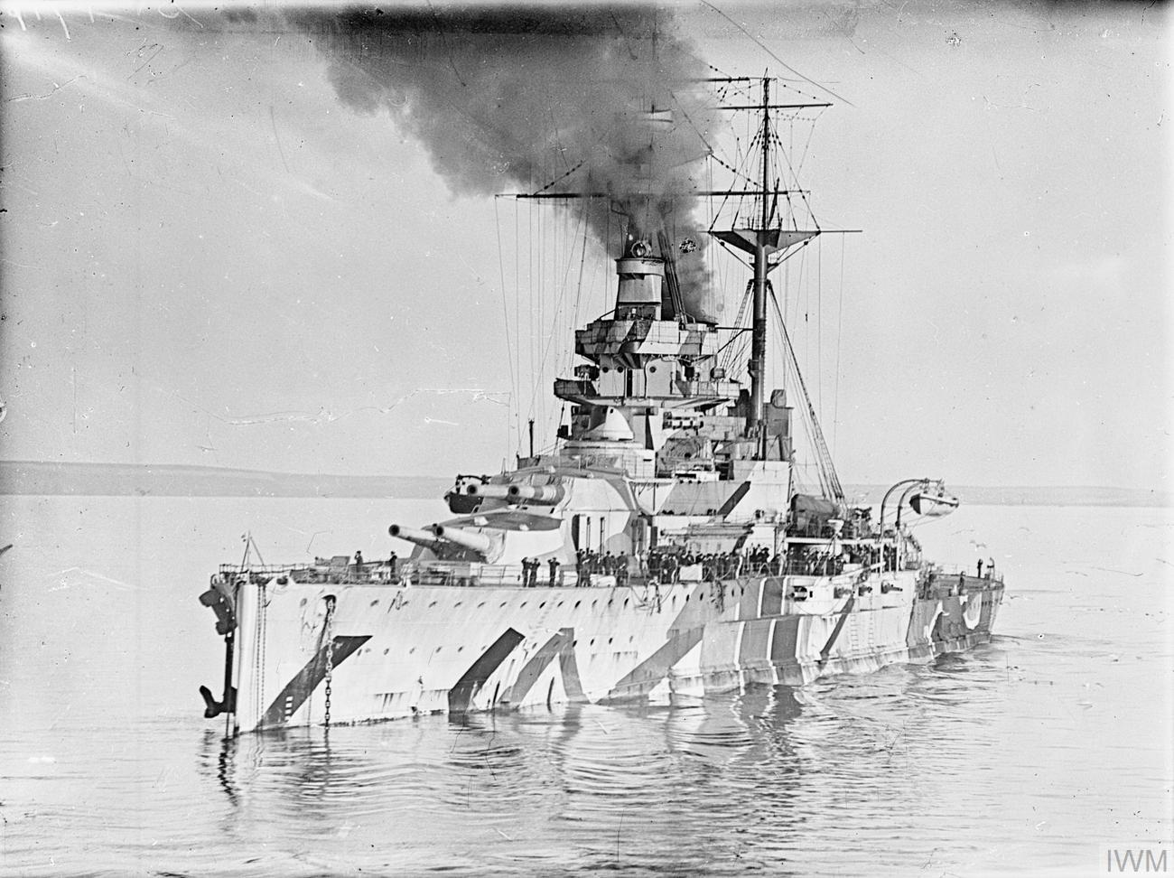 Photograph of British battleship HMS Ramillies, at anchor, in dazzle paint.